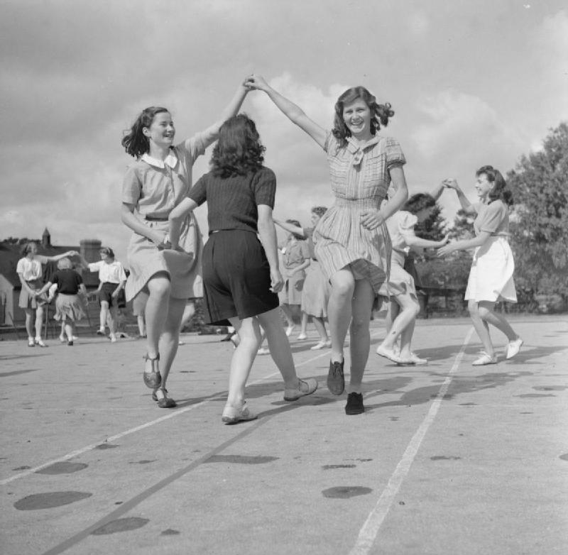 Youth Gathering- Residential Training For Youth Organisations, Sidcot School, Winscombe, Somerset, England, UK, 1943 Groups of young women hold hands and skip through the archways they are making with their arms during a lesson on European folk dance at Sidcot School. The class forms part of their Physical Training programme, part of the week-long youth training course being held at the school.